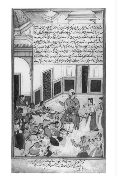 Ramayana